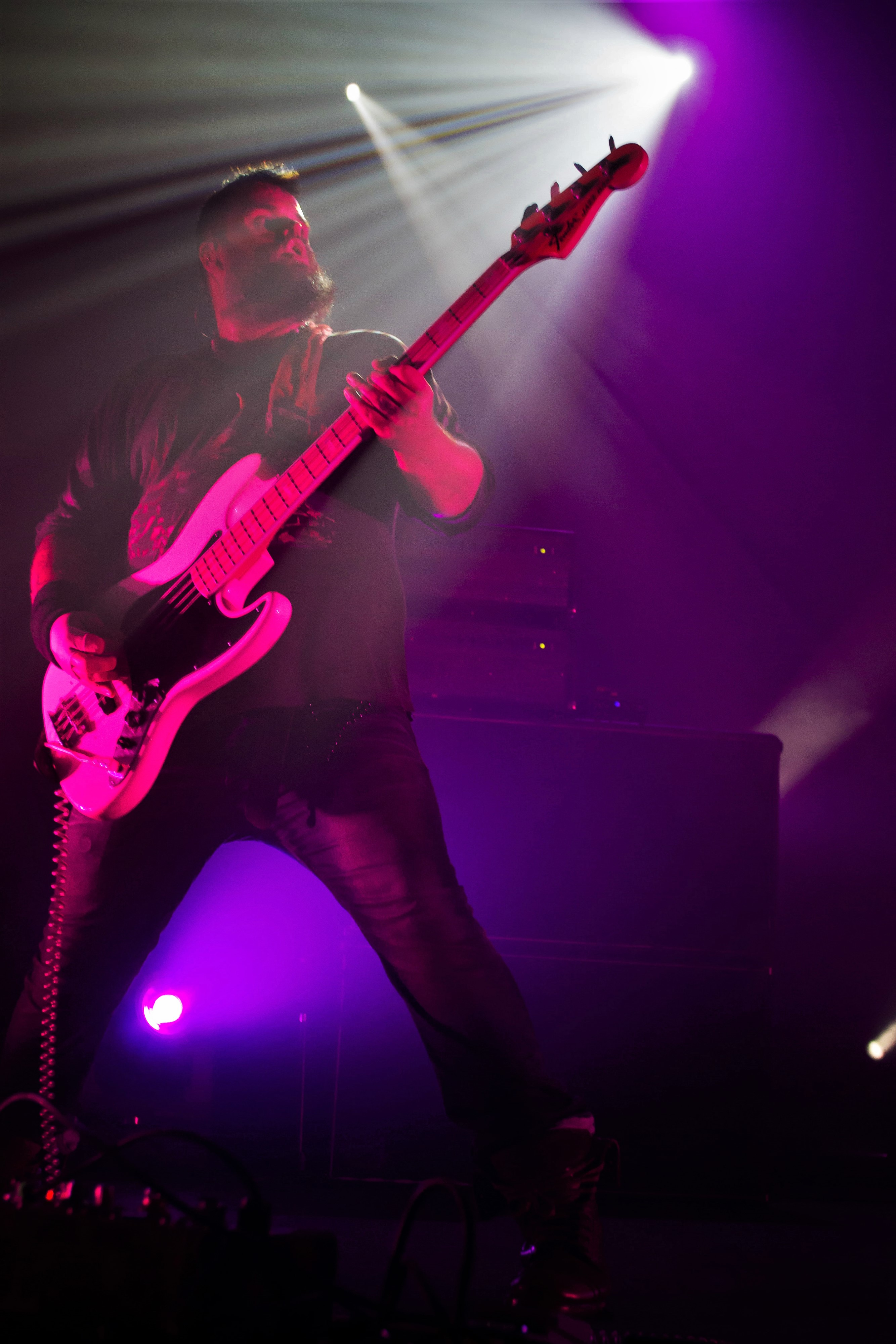 Him performing in São Paulo, Brazil on March 30, 2014.